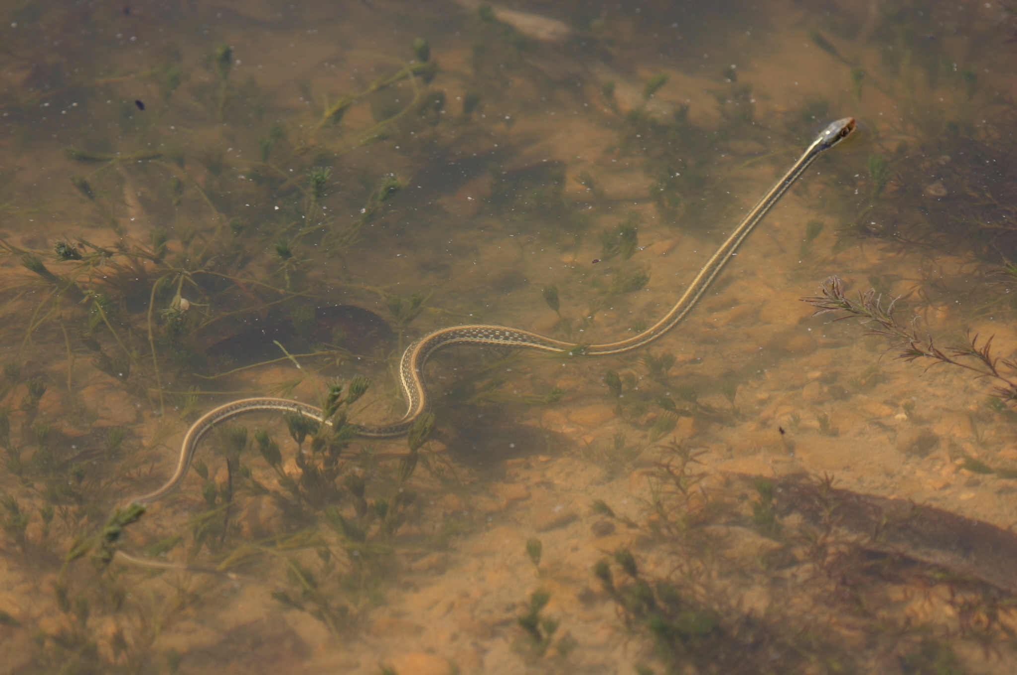 Harmless garter snake swimming in a pond that is quickly diminishing via evaporation in the dry riverbed of Seminole River during drought. Photo taken at the Seminole Canyon riverbed, Seminole Canyon State Park, Texas, USA.